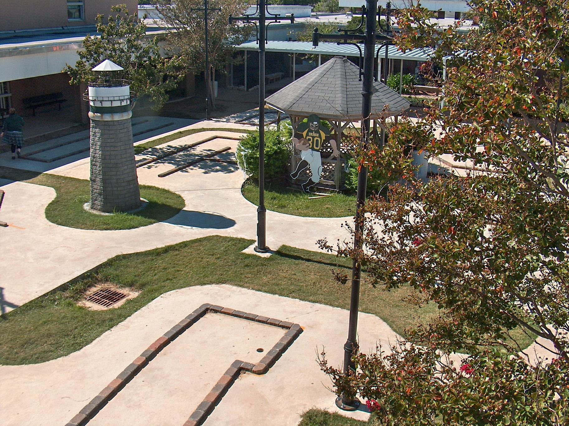 A view of Grace King High School's center courtyard, where the handicapped-accessible putt-putt course is being built.